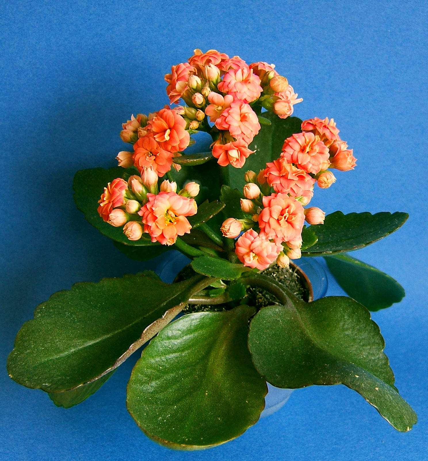 Flaming Katy